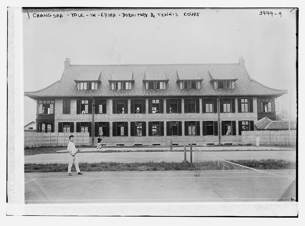 Bain News Service, publisher. Chang Sha -- Yale-in-China - Dormitory and tennis court [between ca. 1910 and ca. 1915] 1 negative : glass ; 5 x 7 in. or smaller. Notes: Title from unverified data provided by the Bain News Service on the negatives or caption cards. Forms part of: George Grantham Bain Collection (Library of Congress). Format: Glass negatives. Repository: Library of Congress, Prints and Photographs Division, Washington, D.C. 20540 USA, General information about the Bain Collection is available at Higher resolution image is available (Persistent URL): Call Number: LC-B2- 3444-9a